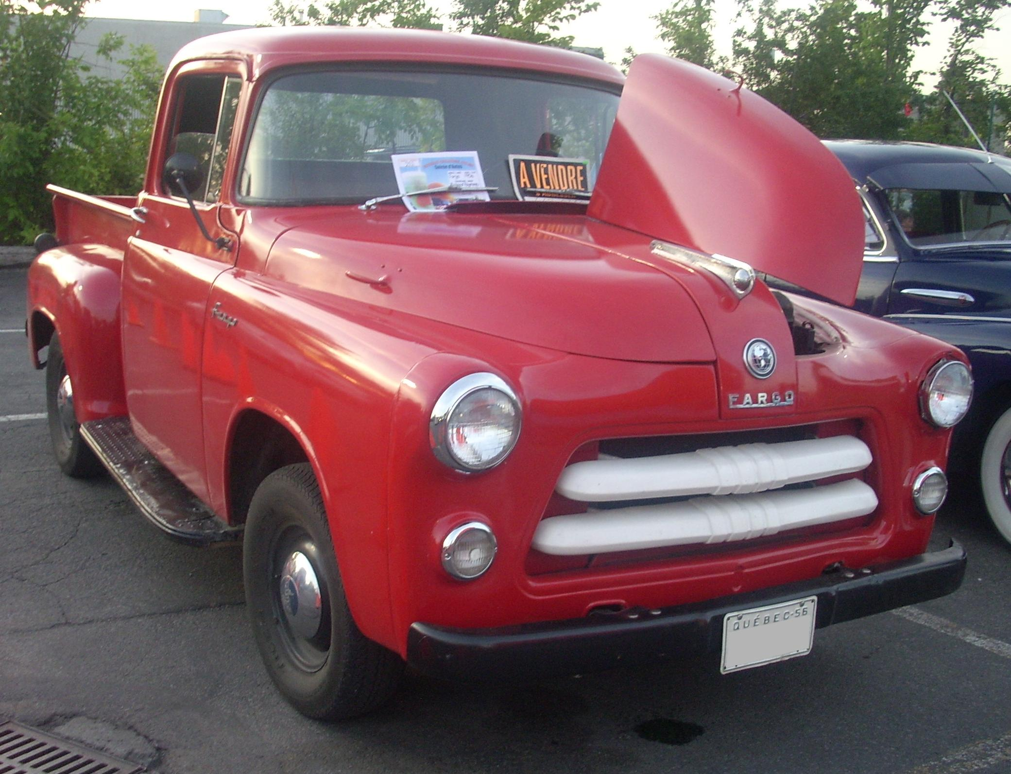 1956 Fargo photographed in Montreal, Quebec, Canada at Gibeau Orange Julep.